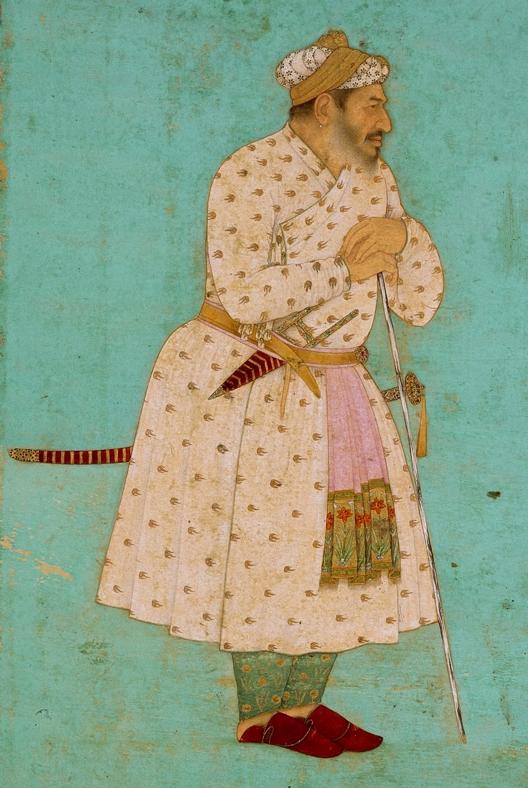 Hashim. Khan Dawran in a White and Gold Jama and Turban, Leaning on a Staff, ca. 1650, Chester Beatty Library, Dublin